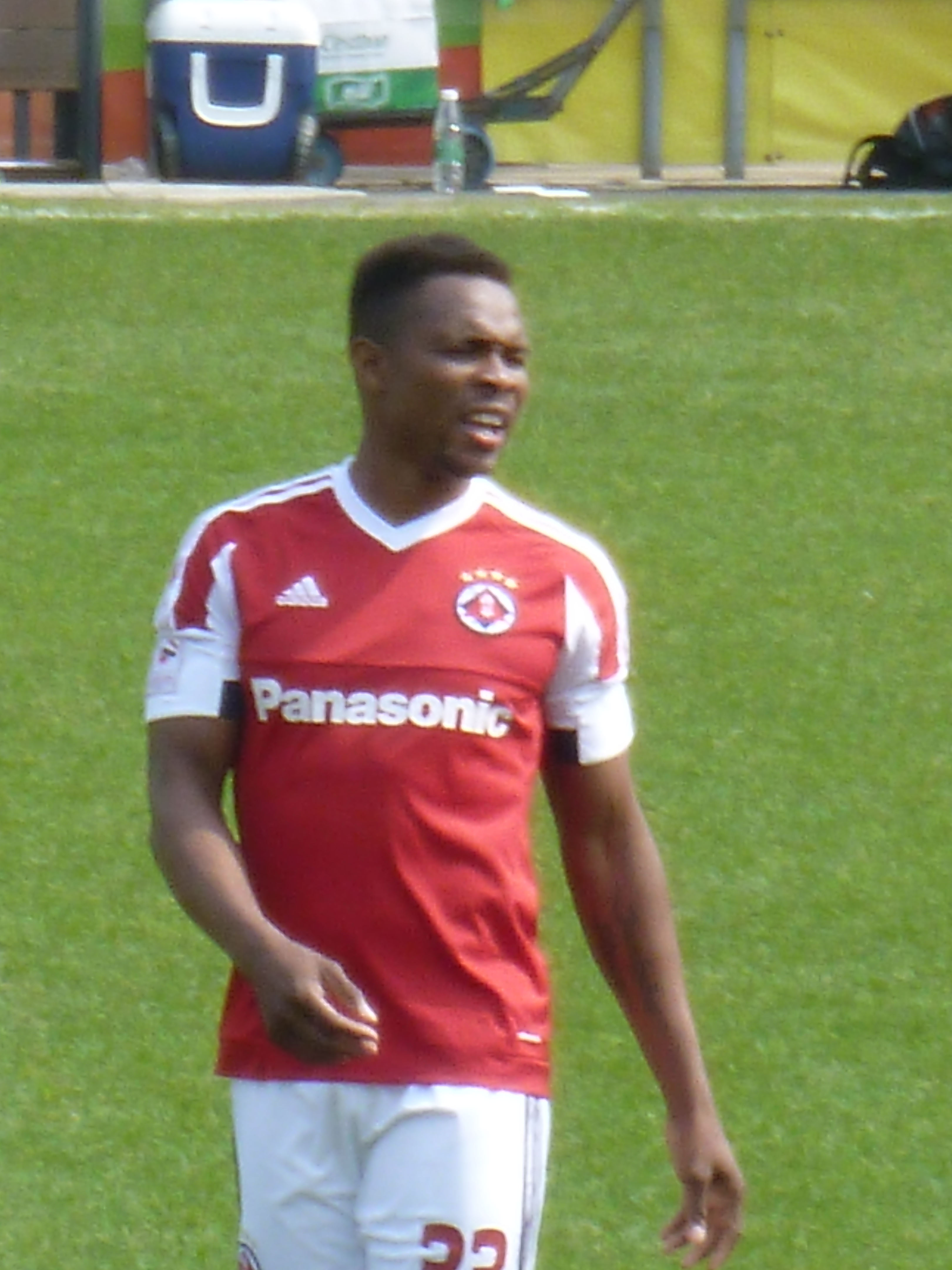 Félix Borja (28 Mar 2016, Hong Kong Sapling Cup, Eastern vs South China, Mong Kok Stadium) 中文（香港）: 菲力斯保耶 (28 Mar 2016, 香港菁英盃, 東方 vs 南華, 旺角大球場)